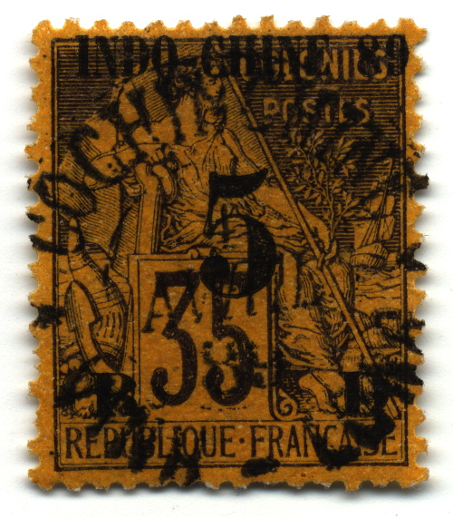 Scan of French Indochina 5c stamp of 1889